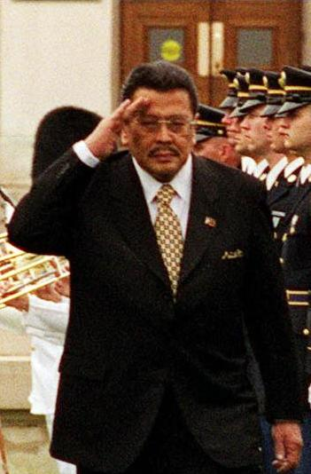 Cropped photo of Philippine President Joseph Estrada from a Defense Department Photo